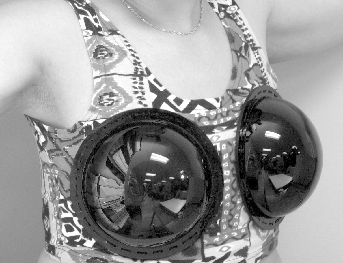 Bra Cam wearable interactive art installation (sousveillance art) that reverses the "male gaze" of surveillance by resituating a pair of surveillance cameras as two wearable wireless webcams.